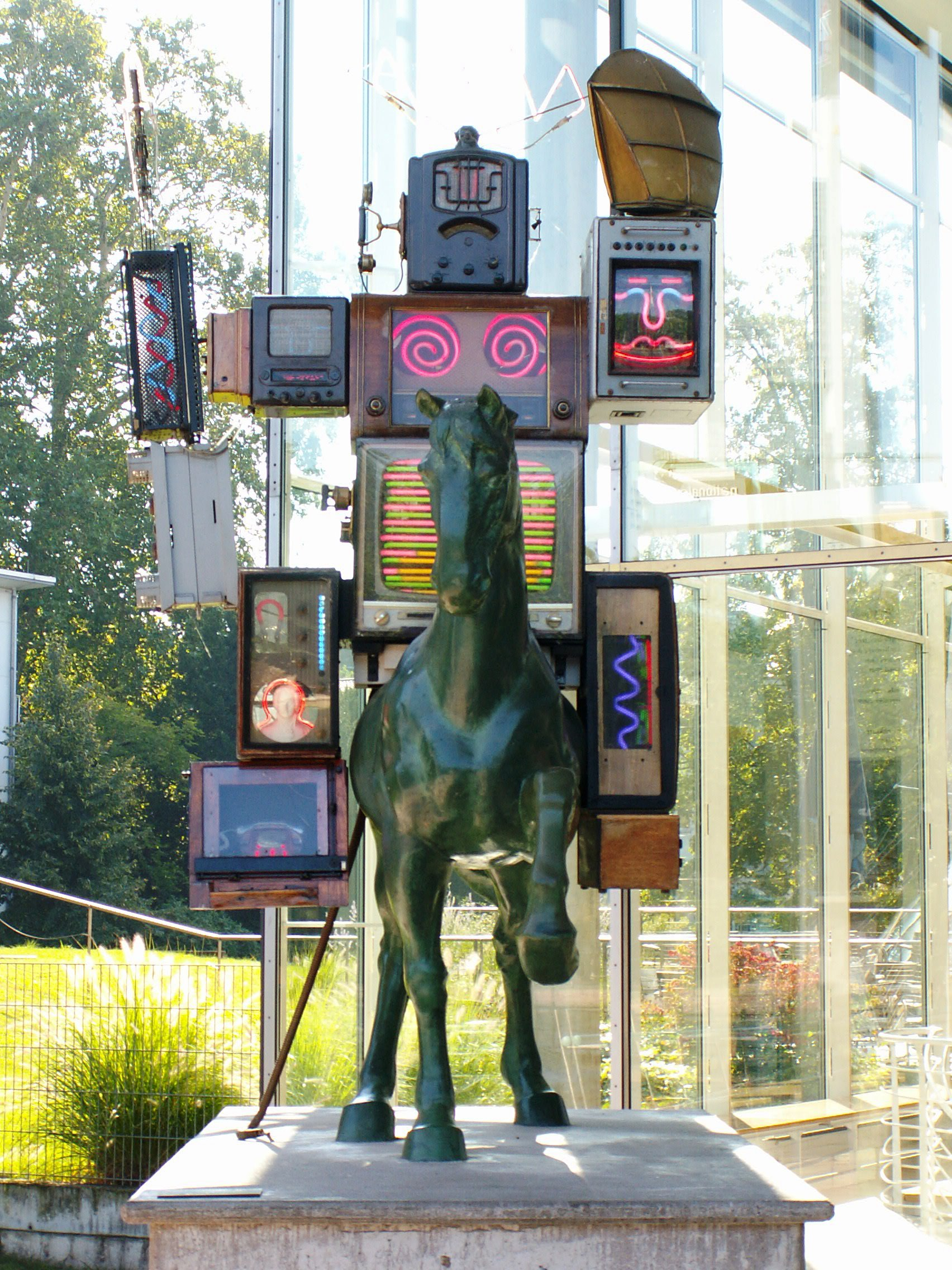 Running away from tomorrow